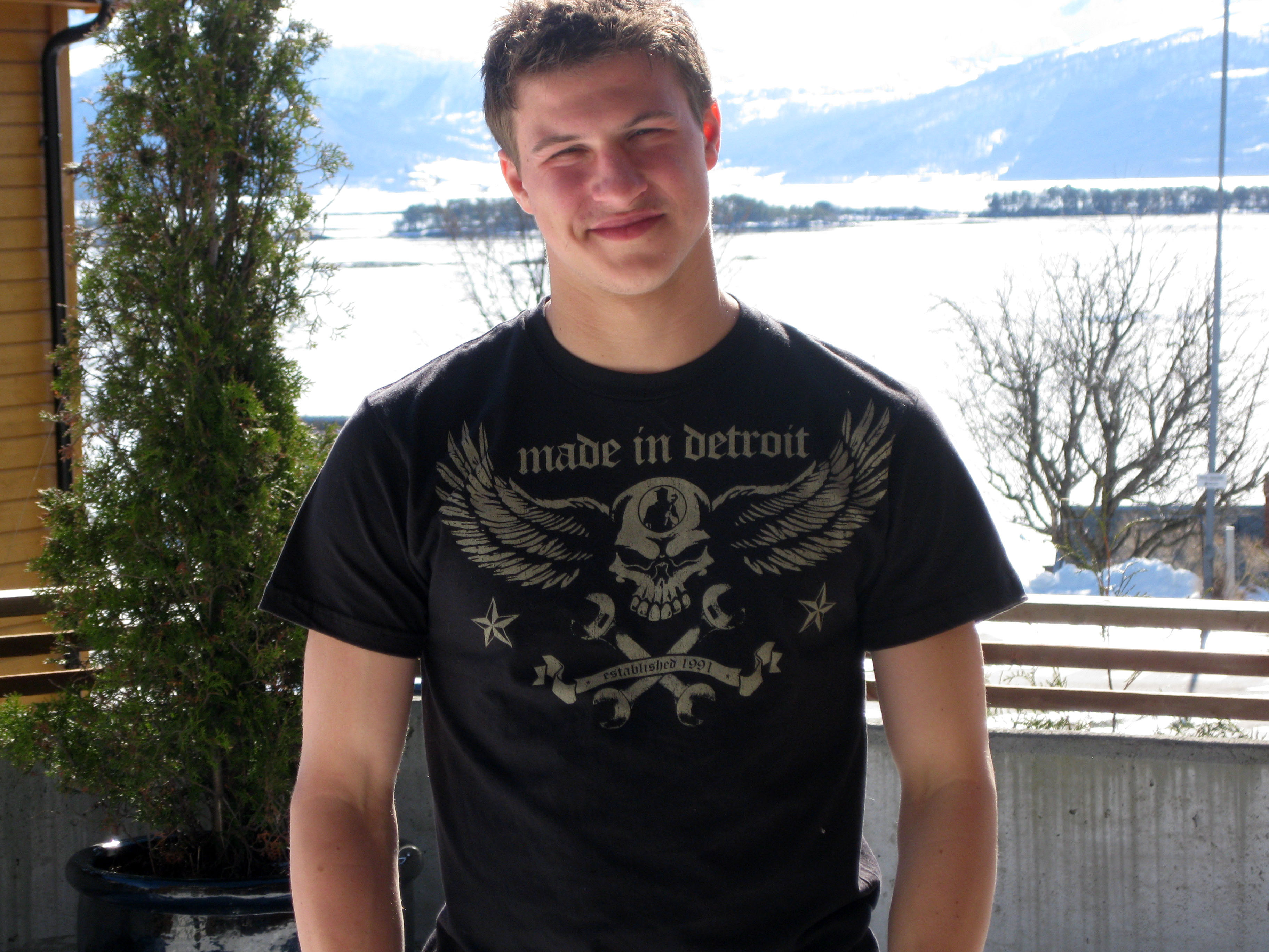 Joshua Gatt in Norway - Professional soccer player for Molde FK